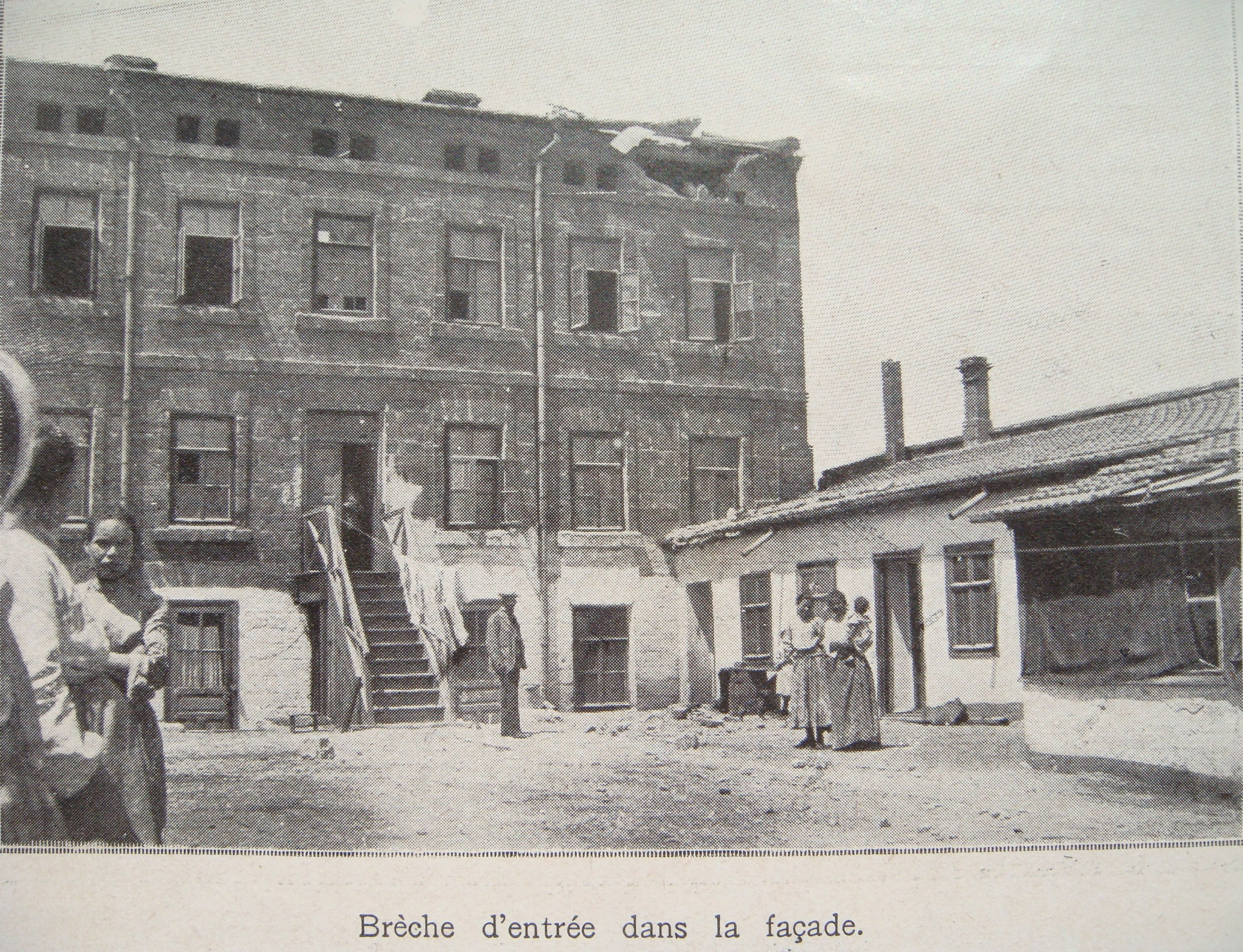 Potemkin mutiny. Strepov's building at Bugaevskaya street hit by gunfire of Potemkin. Front view.